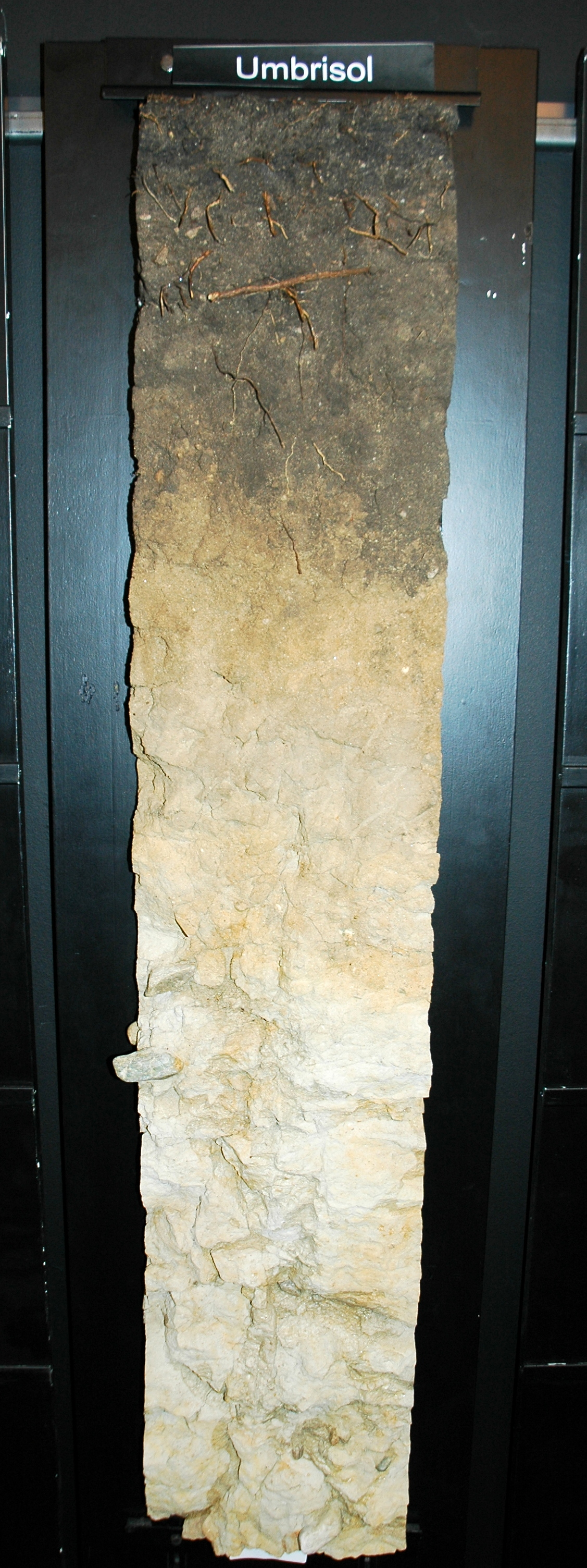 Soil profile of a Umbrisol